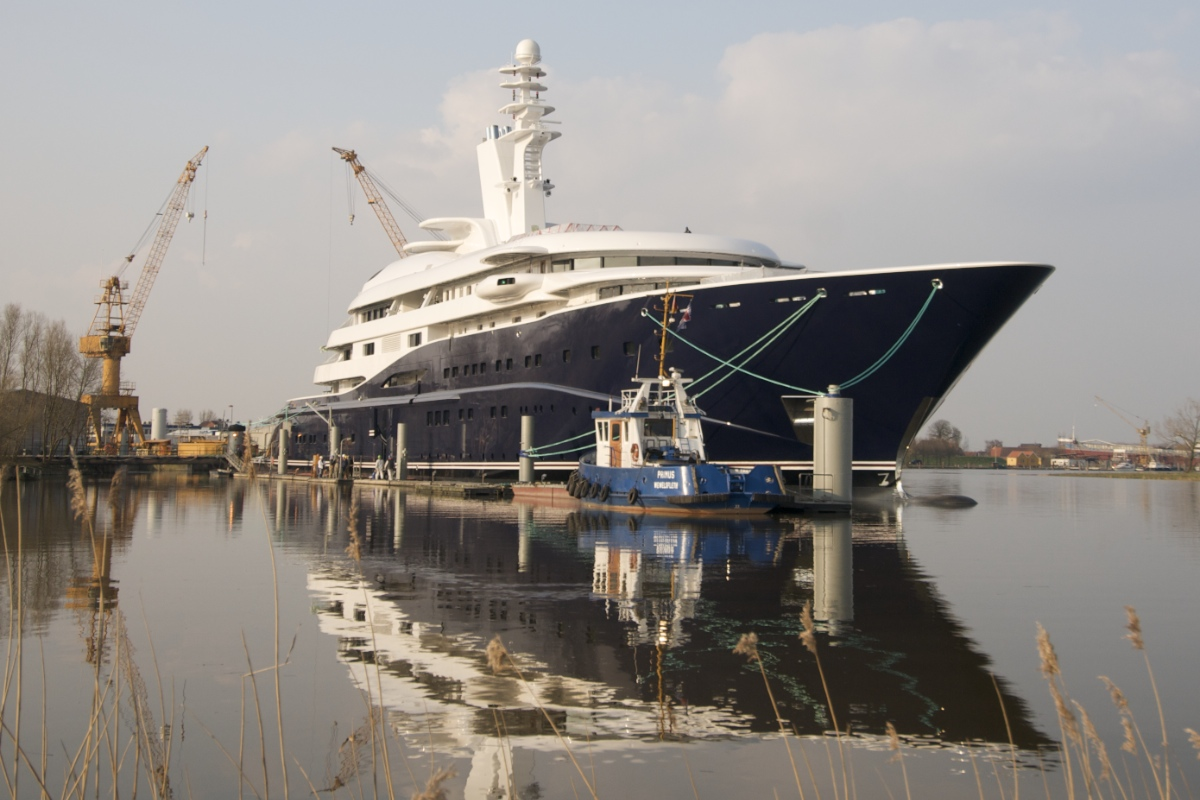 Yacht Al Mirqab at Peters Shipyards in Wewelsfleth, Germany.